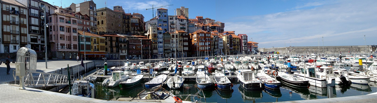 Old port of Bermeo (Biscay), the marina nowadays